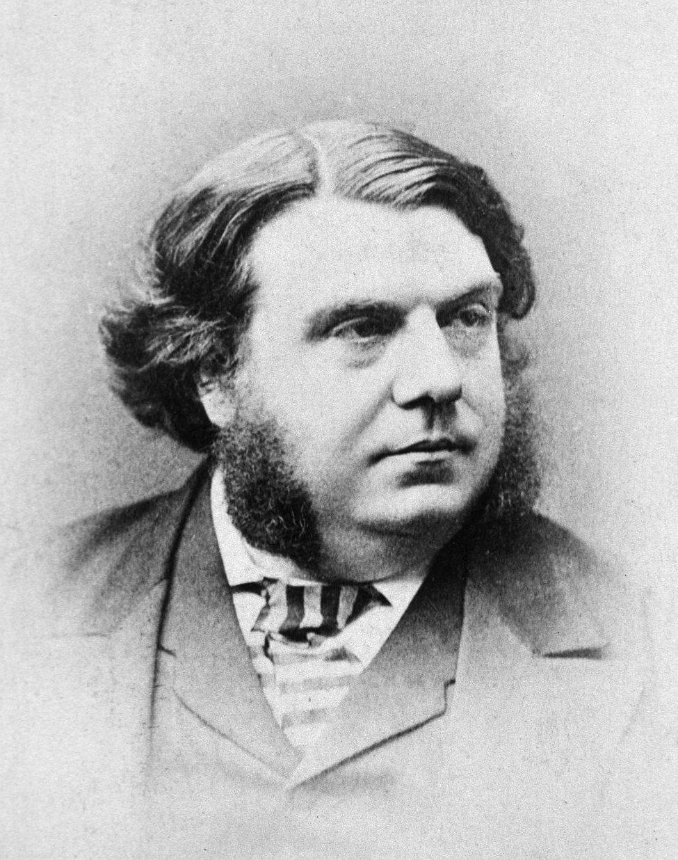 Robert Lawson Tait 1845-1899